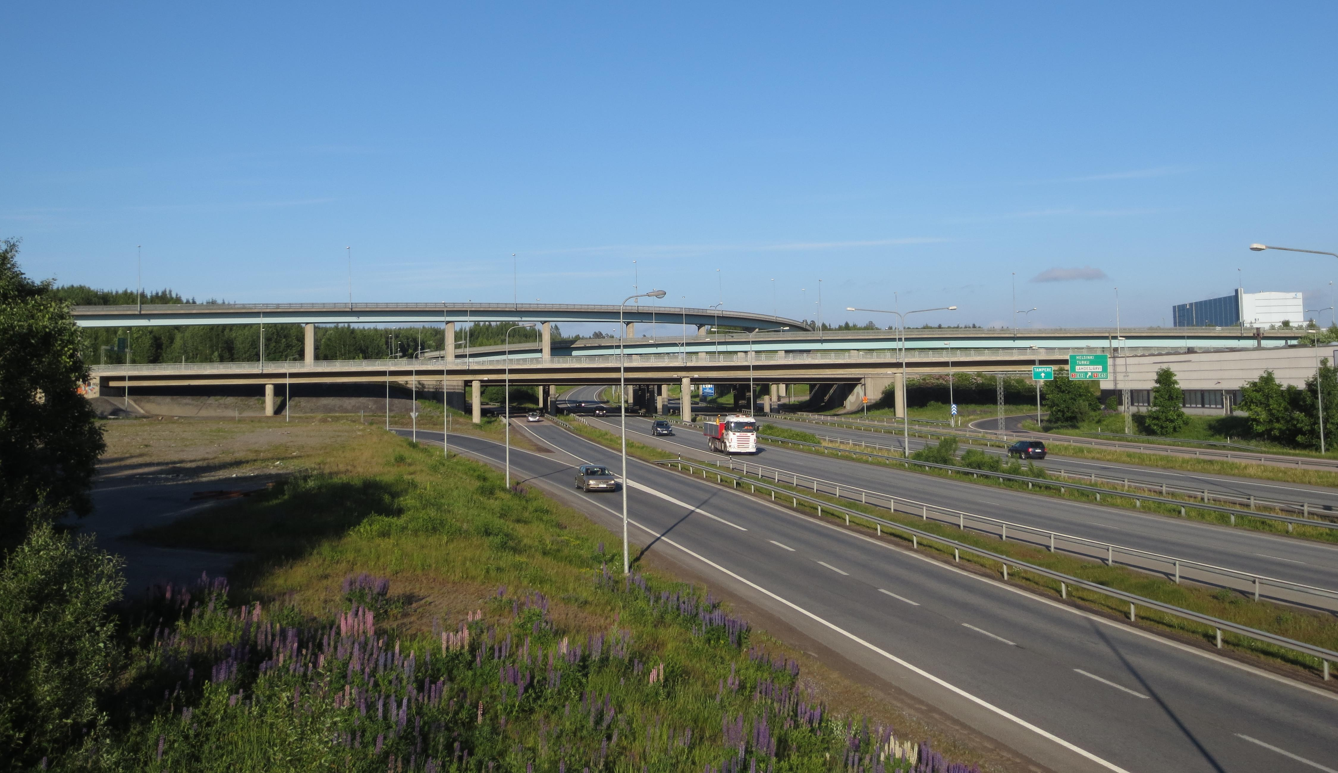 Lakalaiva interchange on the highways 3 (E12) and 9 (E63) in Tampere, Finland, seen from west.